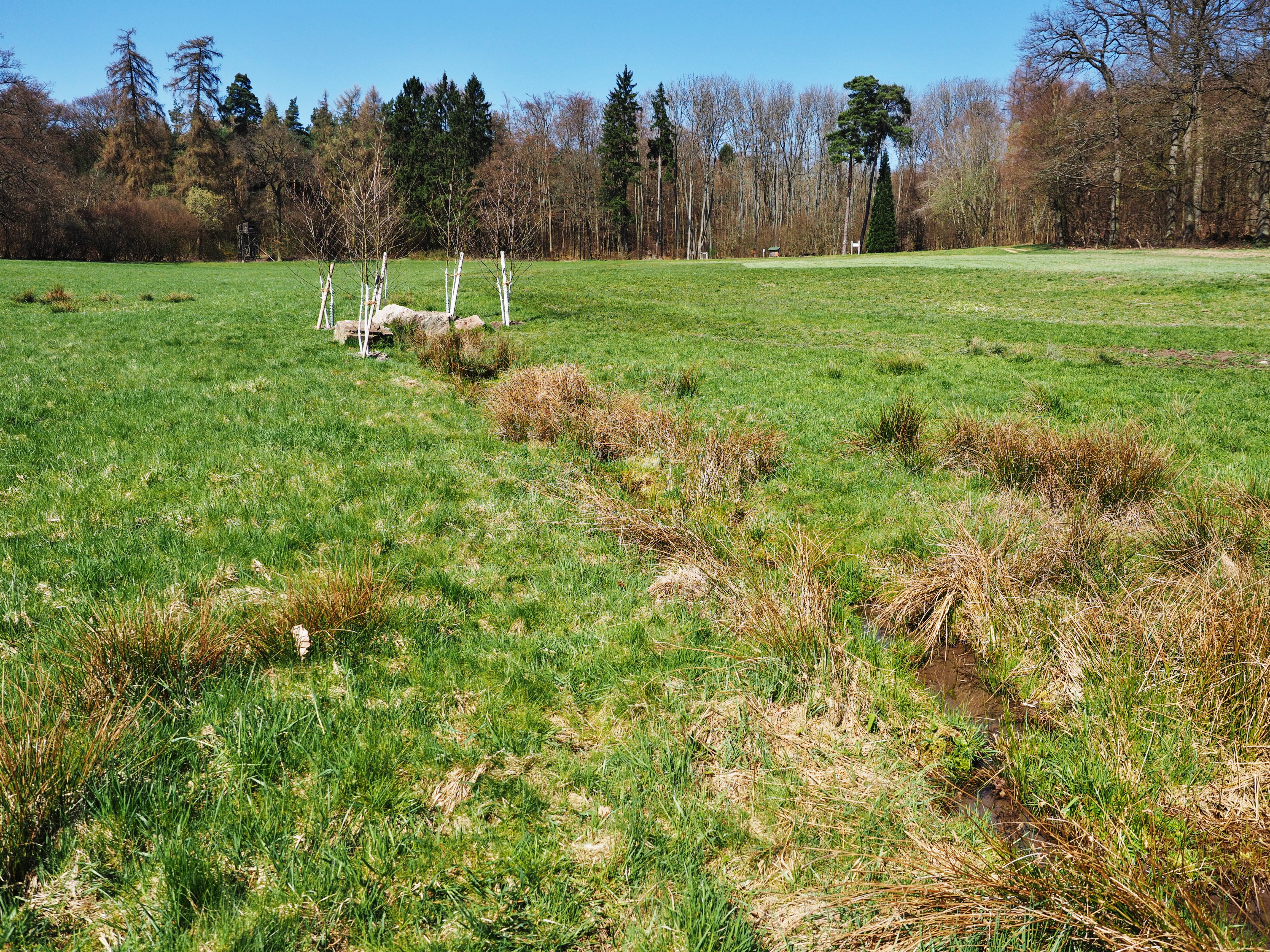 Aar spring, Taunusstein, Germany